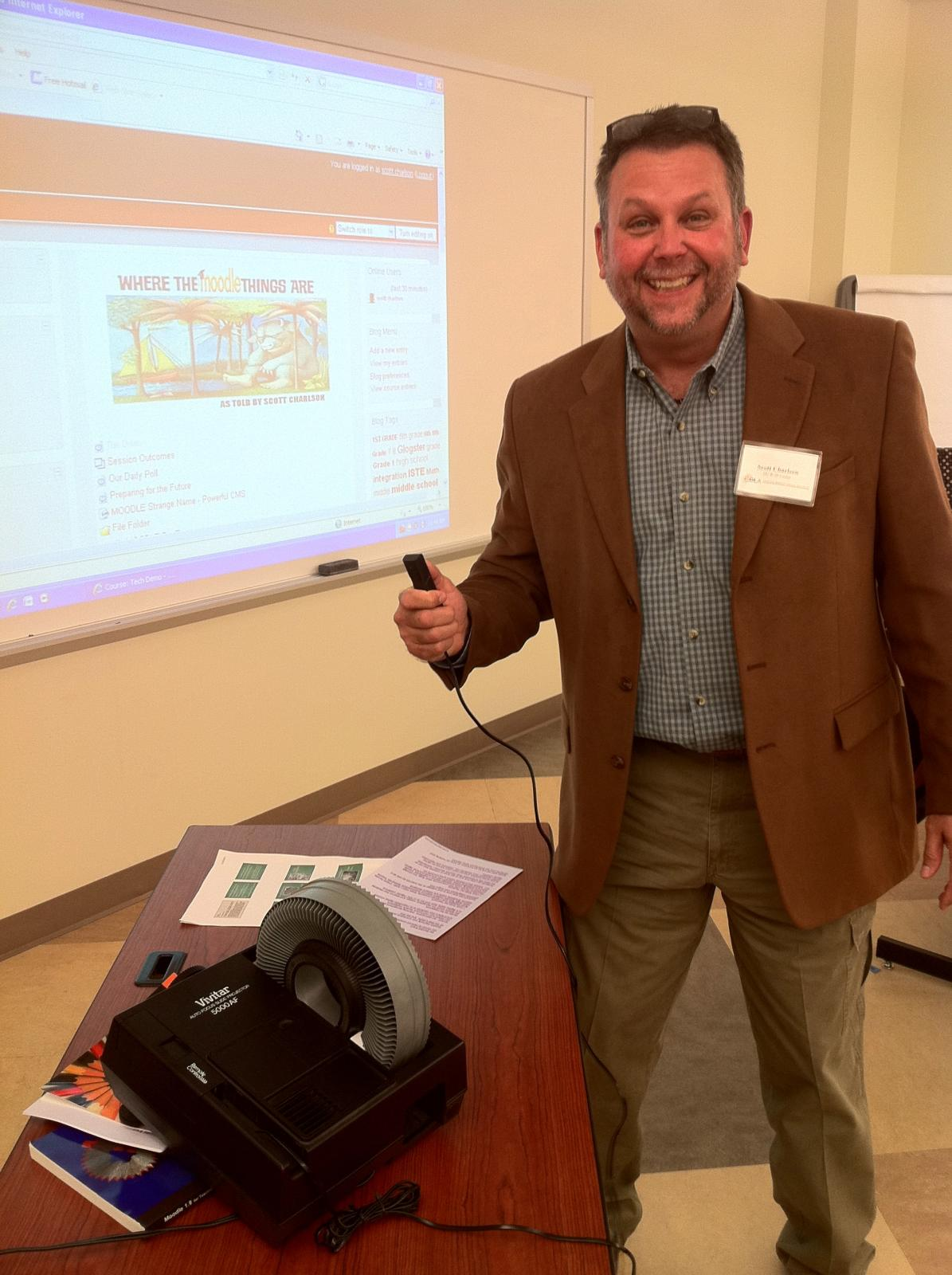 Scott Charleson and his Slide Projector